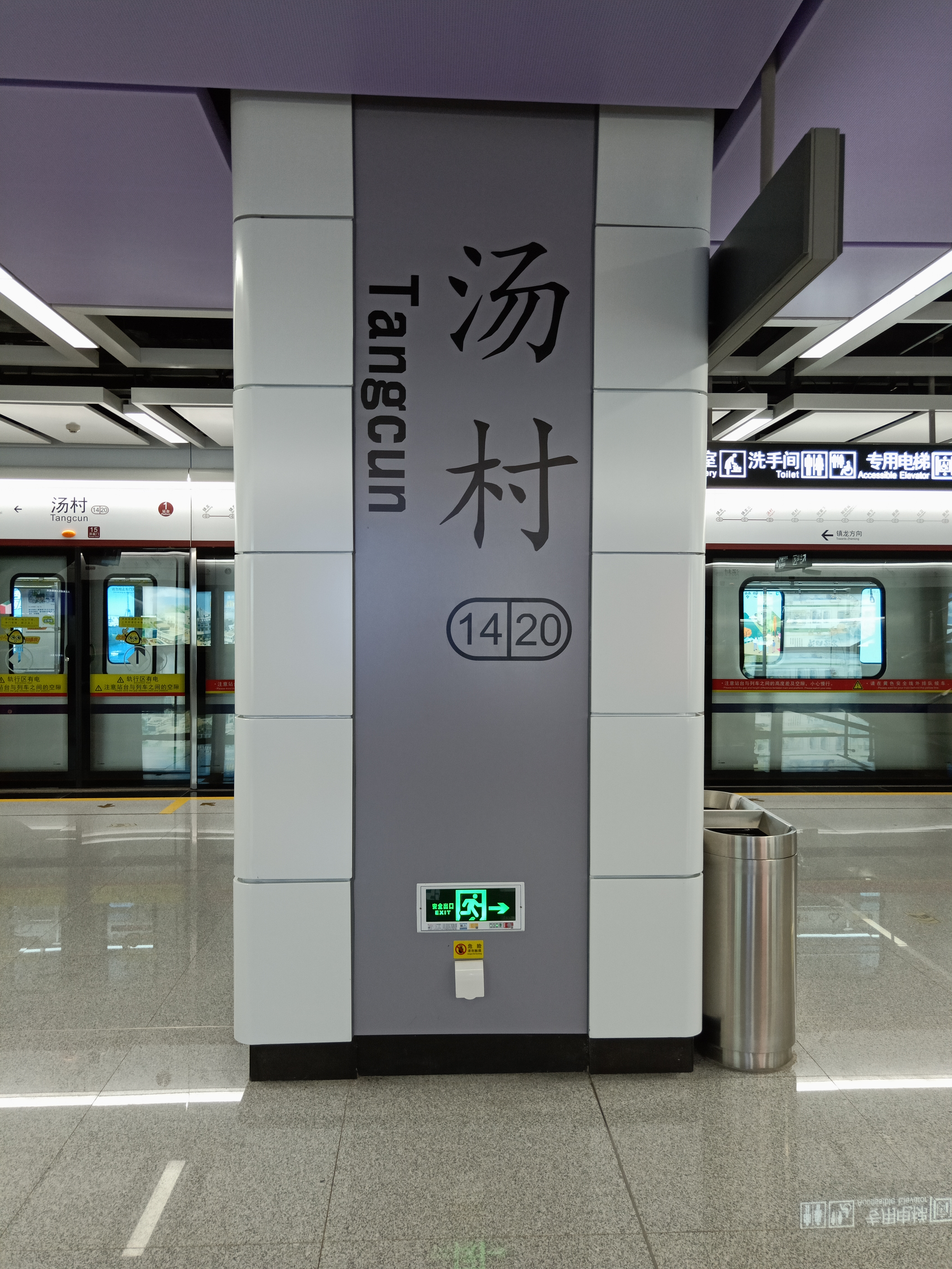 WORD on PILLAR for Tangcun Station in Guangzhou Metro